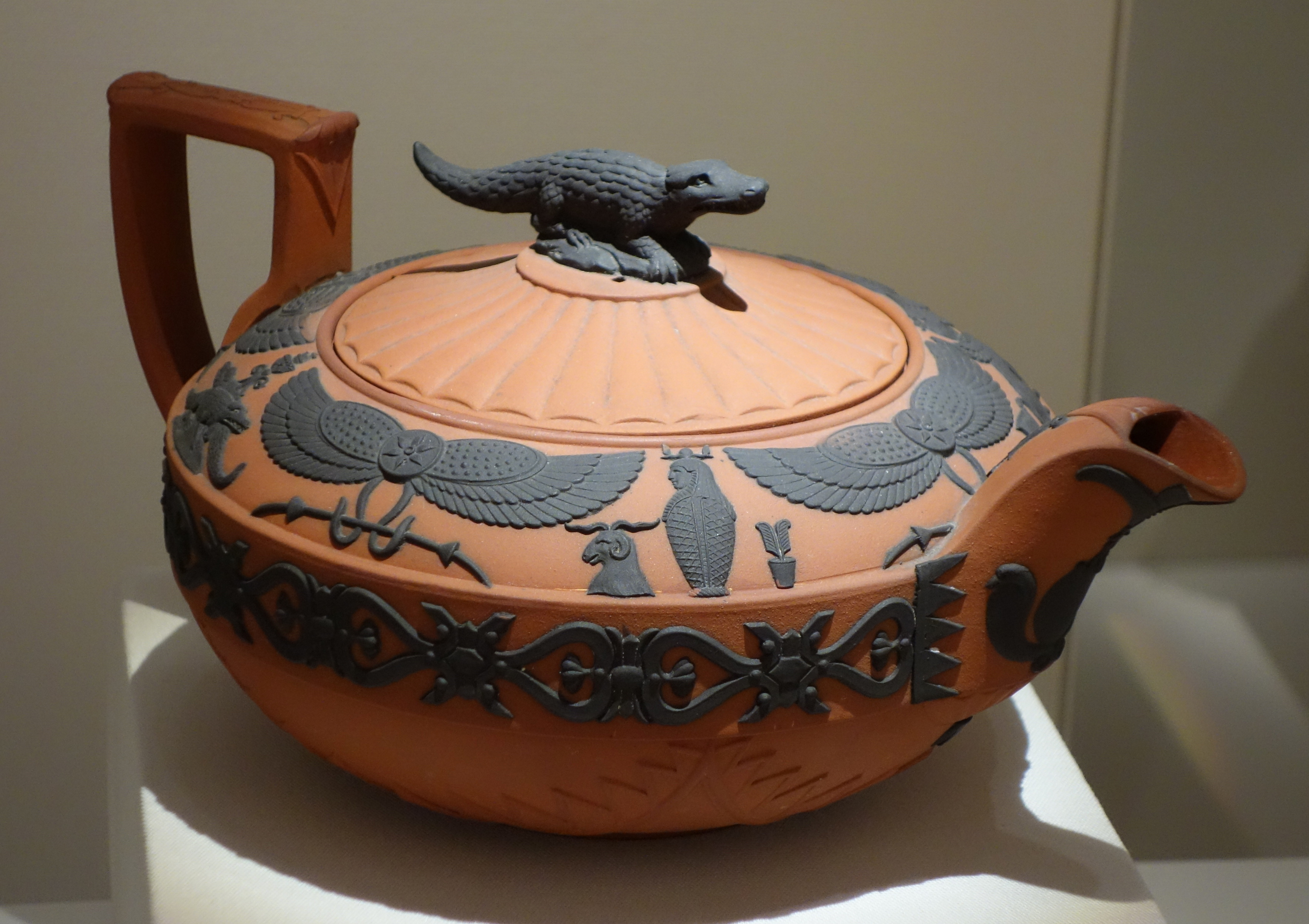 Exhibit in the Chazen Museum of Art, University of Wisconsin-Madison, Madison, Wisconsin, USA. This artwork is old enough so that it is in the public domain.